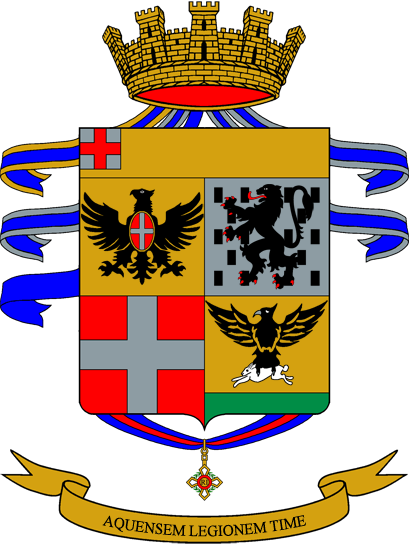 Coat of Arms of the 17° Infantry Regiment; Italian Army.